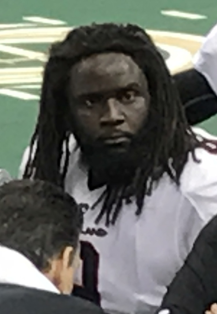 Gladiators during a timeout